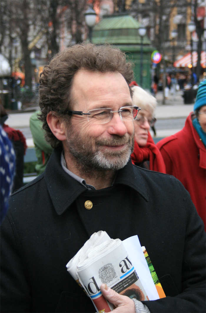 Per Petterson, Norwegian author